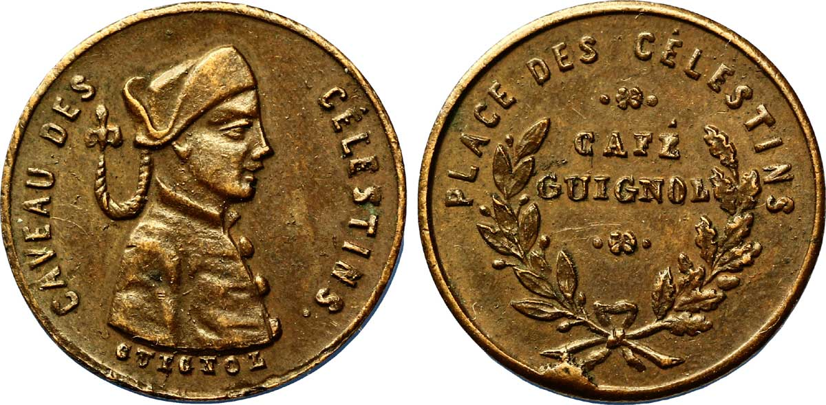 Jeton à l'effigie du café concert Guignol, jeton appartenant au Caveau des Célestins, établissement ouvert des années 1826 à 1857.